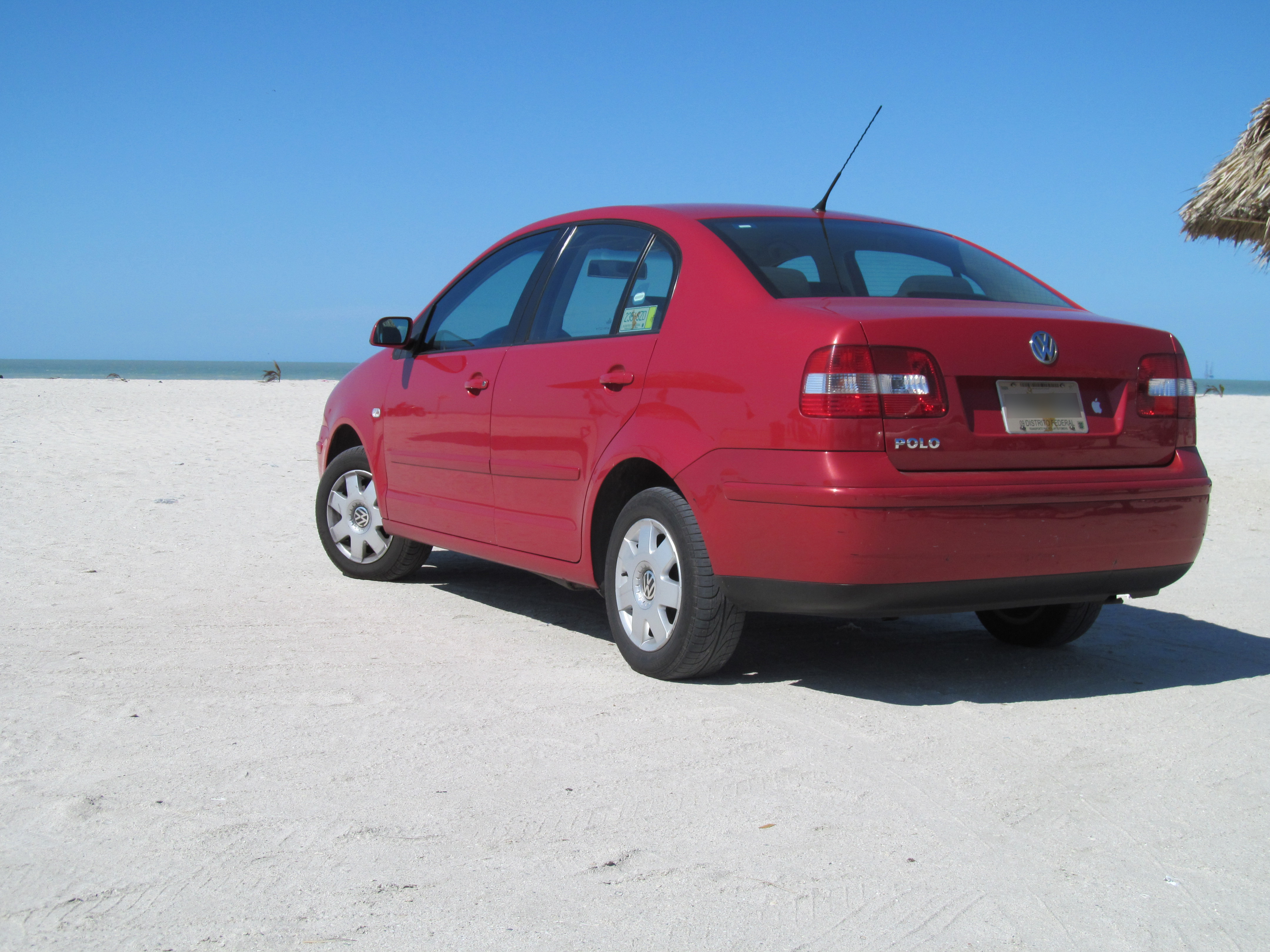 Volkswagen Polo 9N Sedan Mexico photographed at Playa Norte, Ciudad del Carmen, Campeche, México